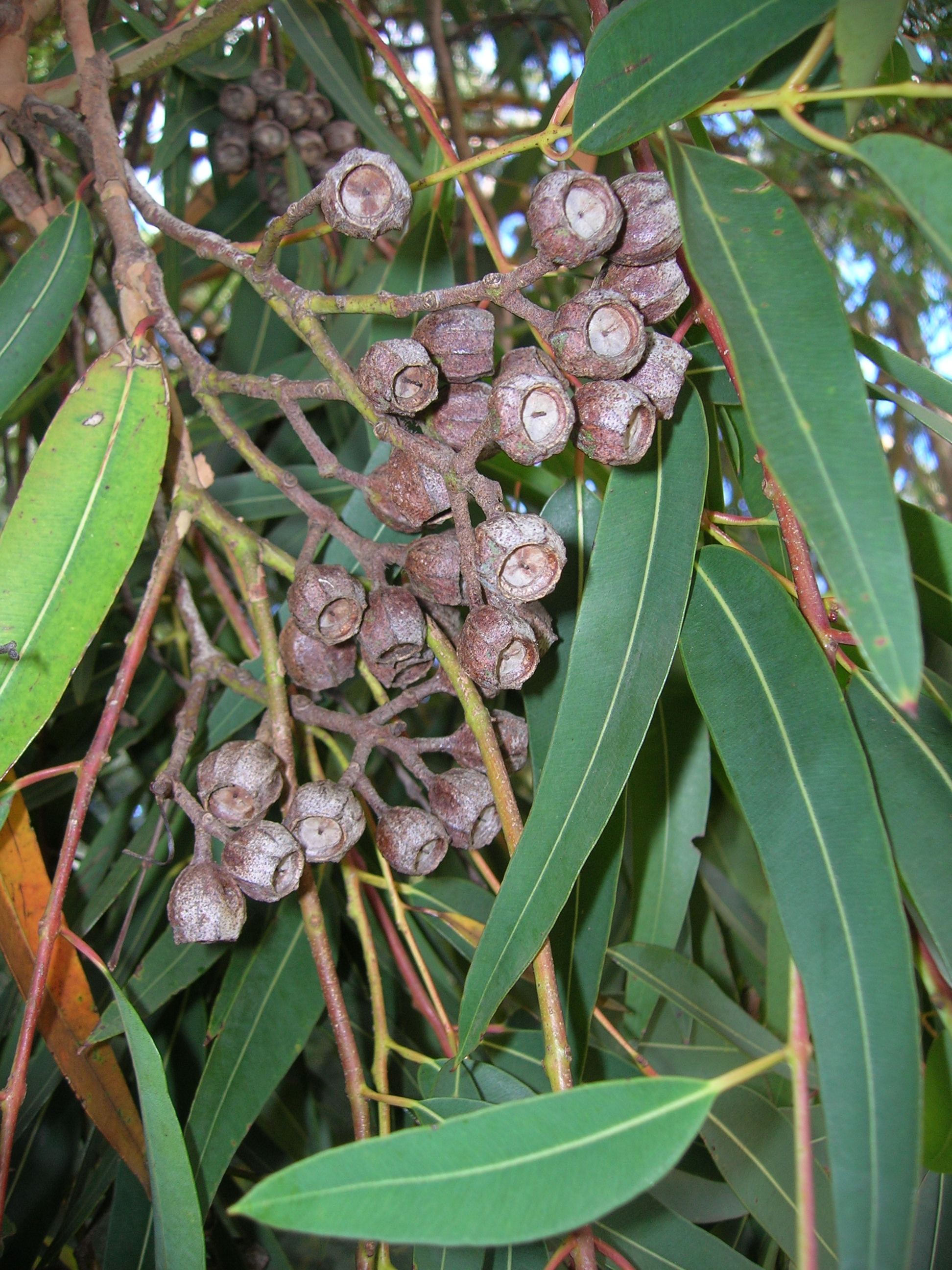 Angophora costata (fruit). Location: Maui, Olinda